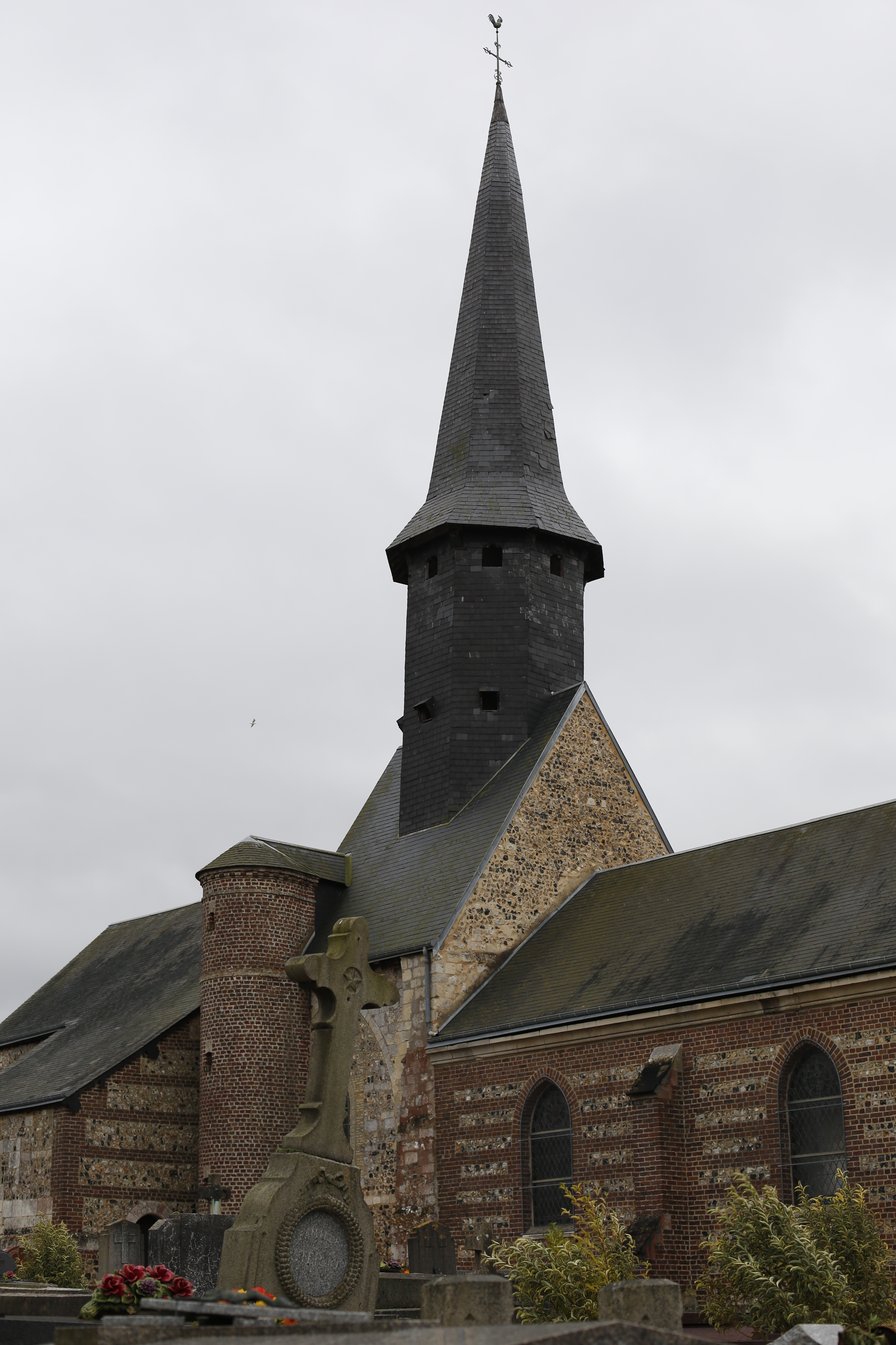 Church of Épouville.